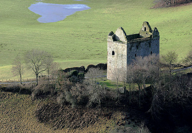 Newark Castle Newark Castle is a rectangular tower with 3m thick walls, first mentioned in 1423, and standing on a natural stronghold, reinforced by a 16th century barmkin. The castle was passed back to the Crown in 1445 from the Earls of Douglas and became one of only two royal castles in the Middle March, serving both as an estate centre for Ettrick Forest and a hunting retreat. In 1547-8, the English took the barmkin, burnt the stables, but could not take the house. They came back the next year and did so. In 1645, 100 prisoners from the battle of Philiphaugh were slaughtered in the courtyard, and Cromwell’s troops occupied it in 1650. (Source: Borders and Berwick, an Architectural Guide by Charles Alexander Strang).